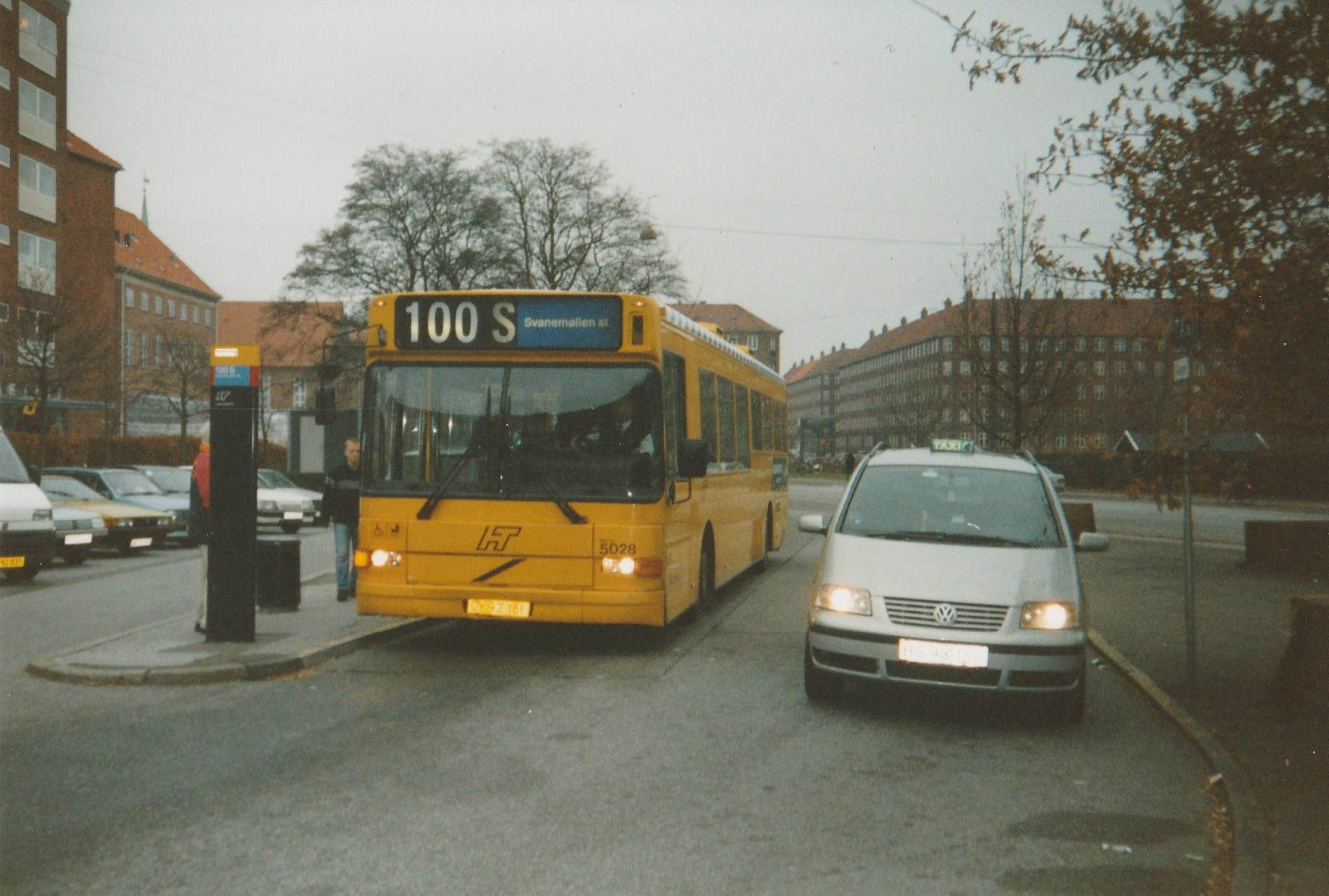 Connex bus 5028 as HT bus line 100S at Lergravsparken Station in Amagerbro in Copenhagen.